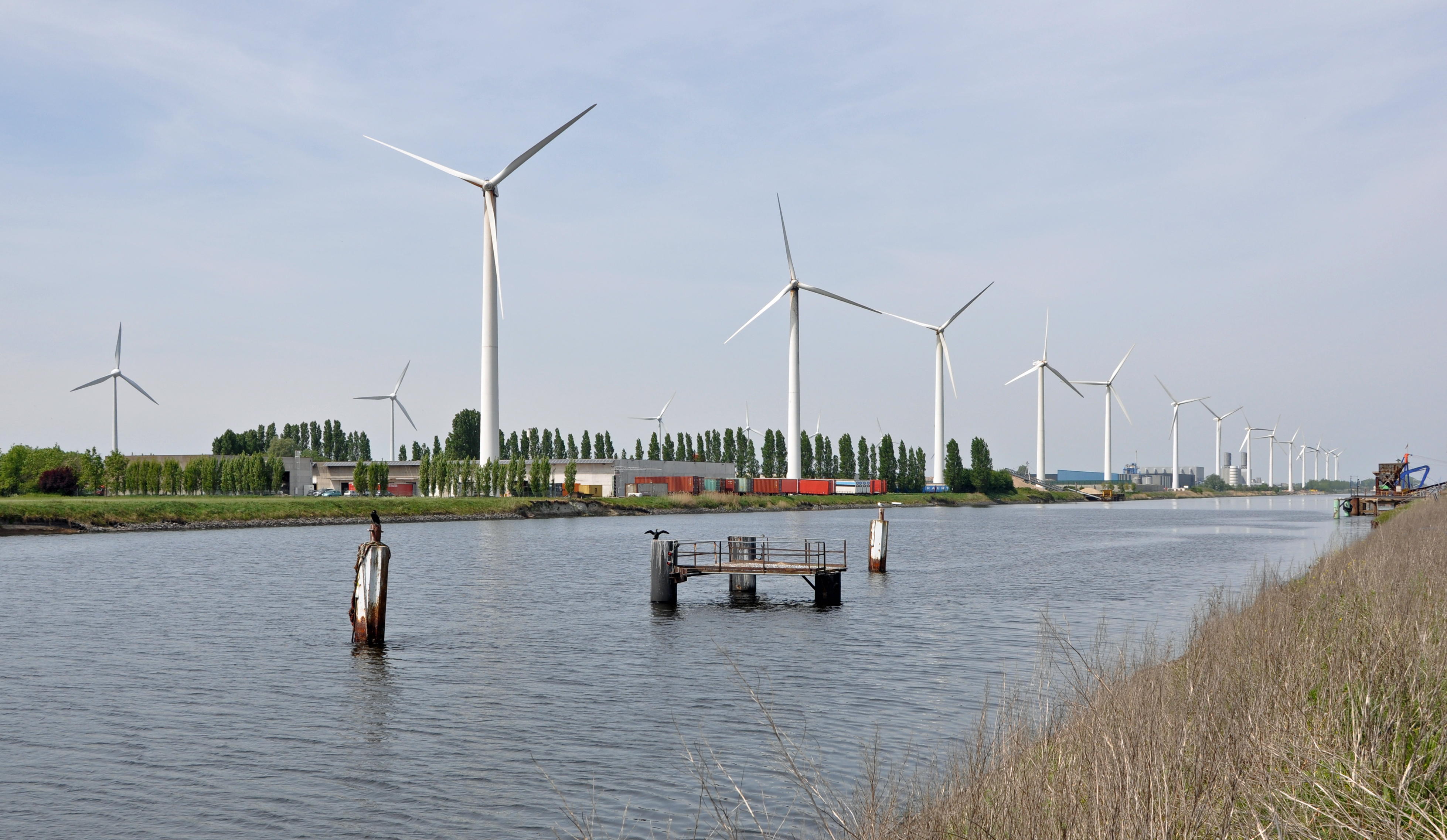 Wind turbines along the Boudewijn canal in Bruges, Belgium